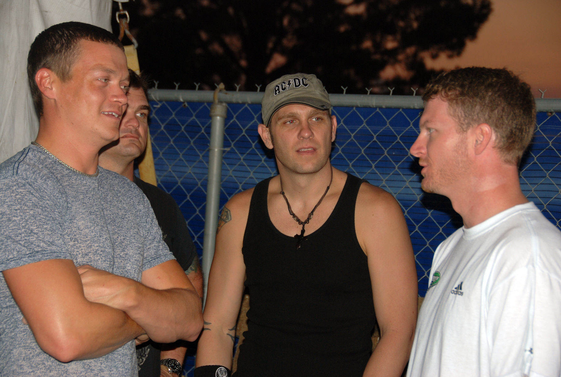 Members of 3 Doors Down (from left to right) Brad Arnold, Chris Henderson and Todd Harrell meet with NASCAR driver Dale Earnhardt Jr., at the Talladega Superspeedway on Oct. 4. The band performed a concert for about 400 National Guard members and their families